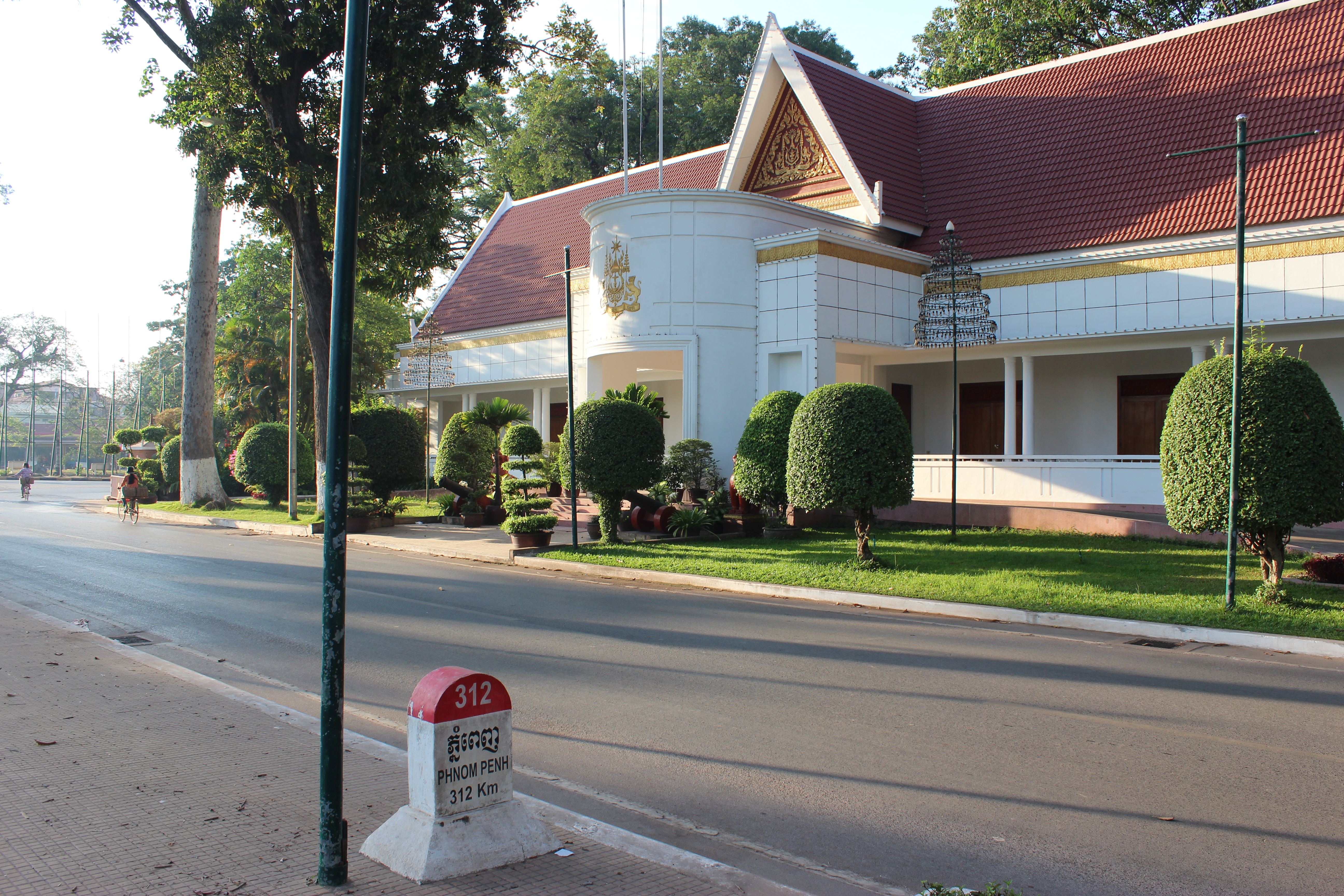 Royal Palace, Siem Reap